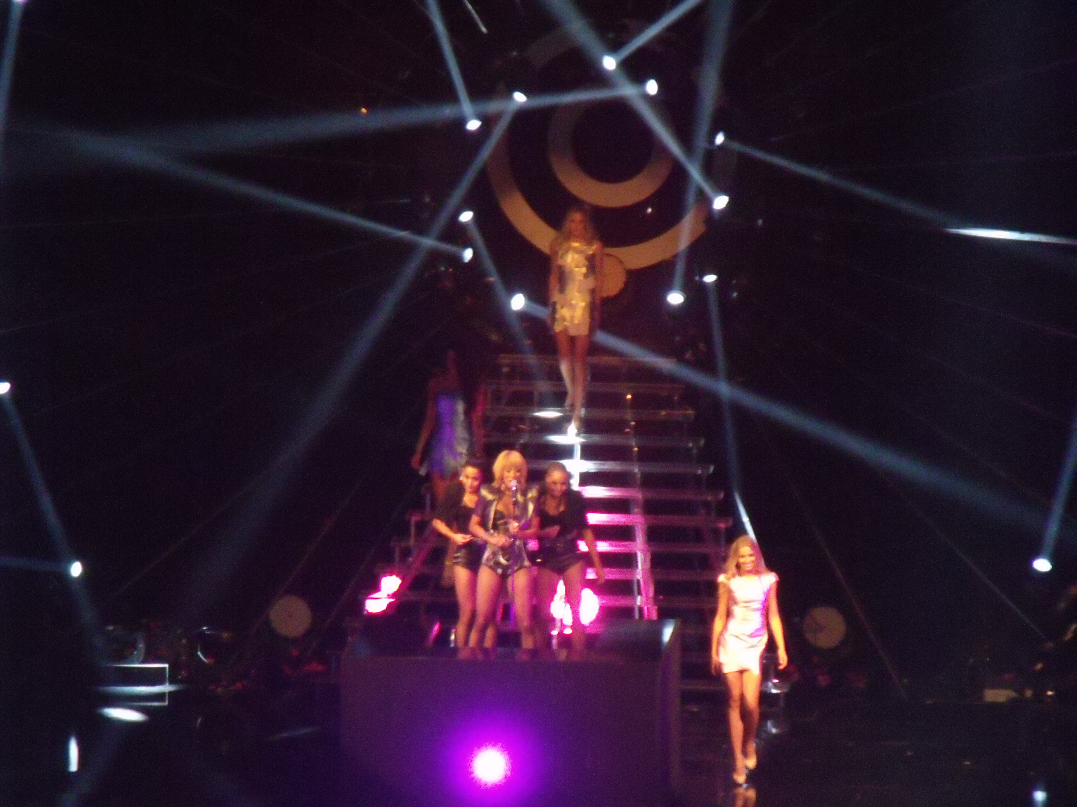 Keri Hilson performing at Germany's Next Topmodel